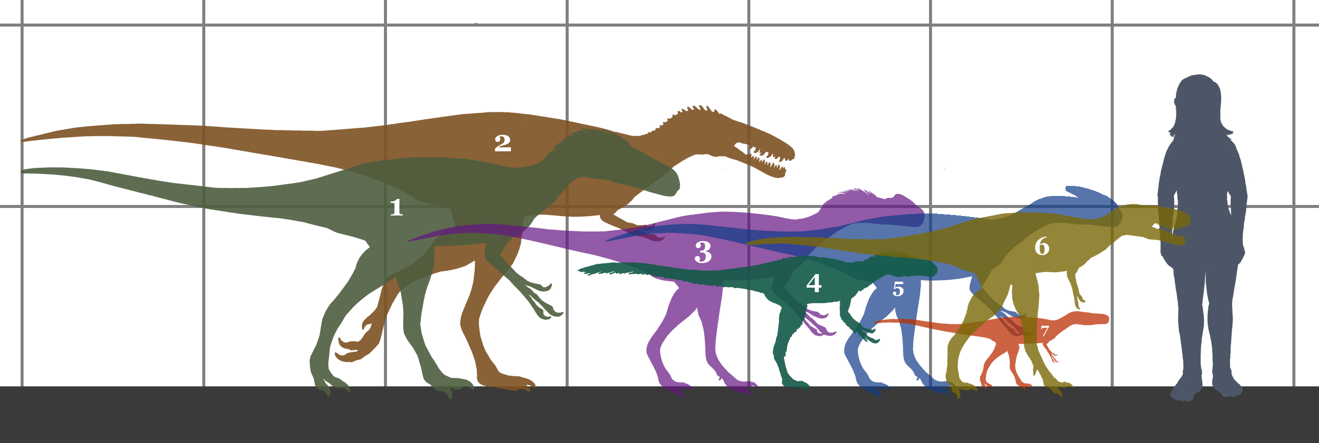 Size comparison between some genera of the theropod dinosaur superfamily Tyrannosauroidea: 1. Eotyrannus, 2. Xiongguanlong, 3. Kileskus, 4. Dilong, 5. Guanlong, 6. Raptorex, 7. Aviatyrannis.